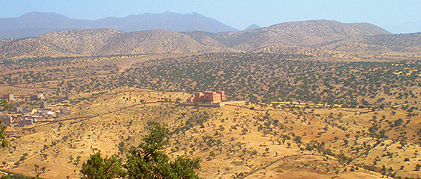 The High Atlas Mountains